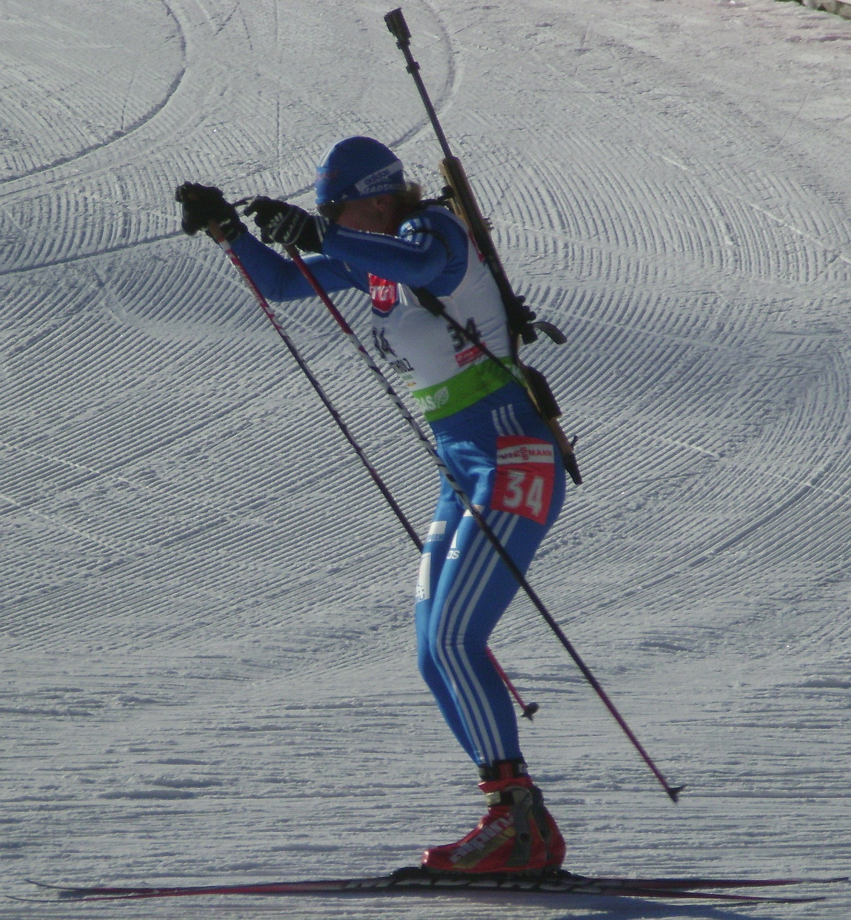 Olga Zaitseva in Antholz, 22-01-2010